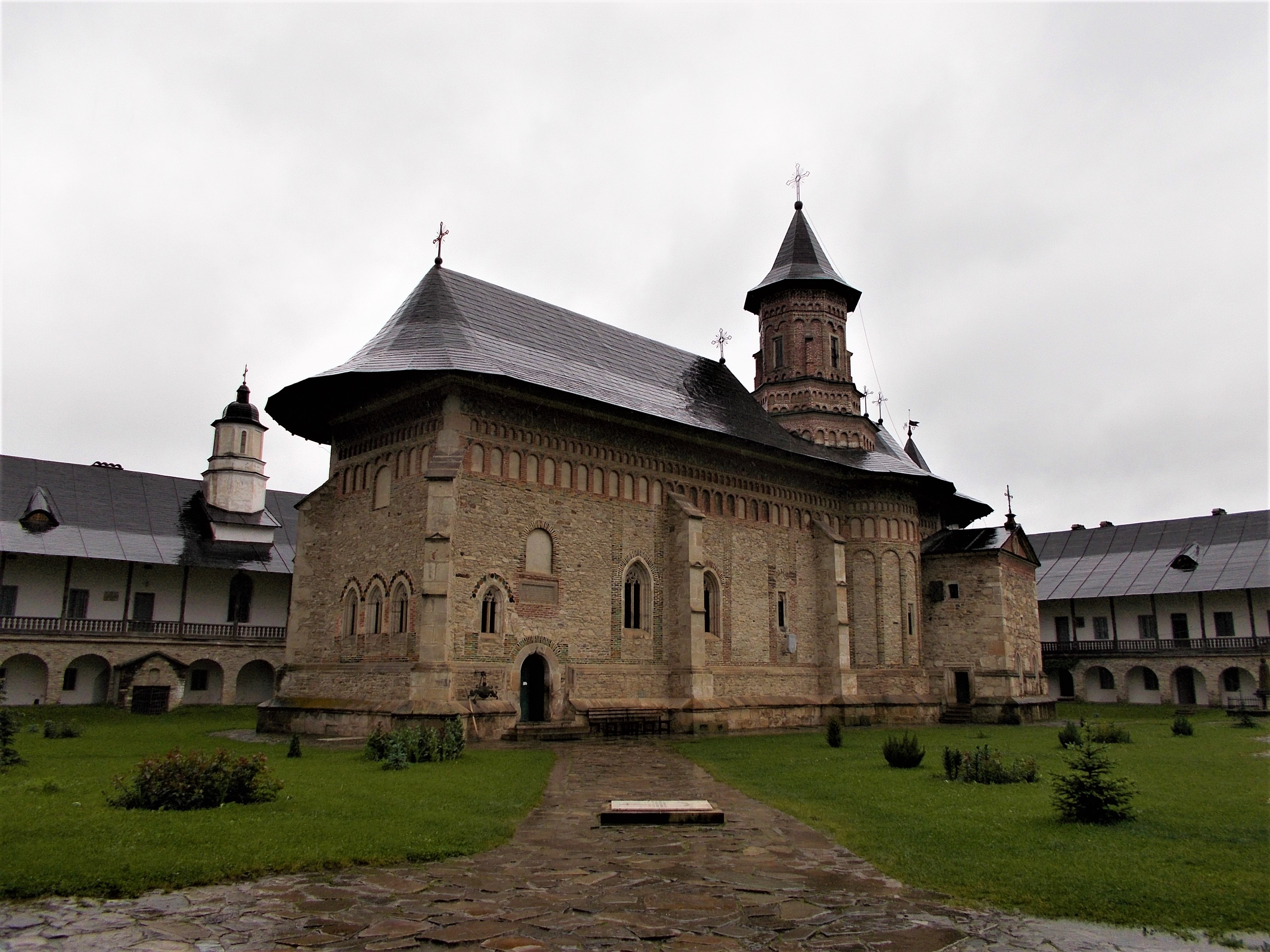 Neamț Monastery, Neamț County, Romania 01